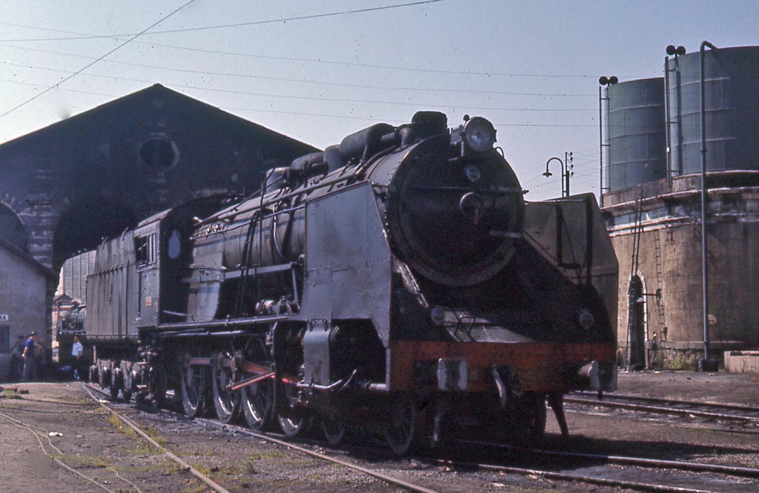 RENFE 240F class at Medina del Campo depot, August 1970